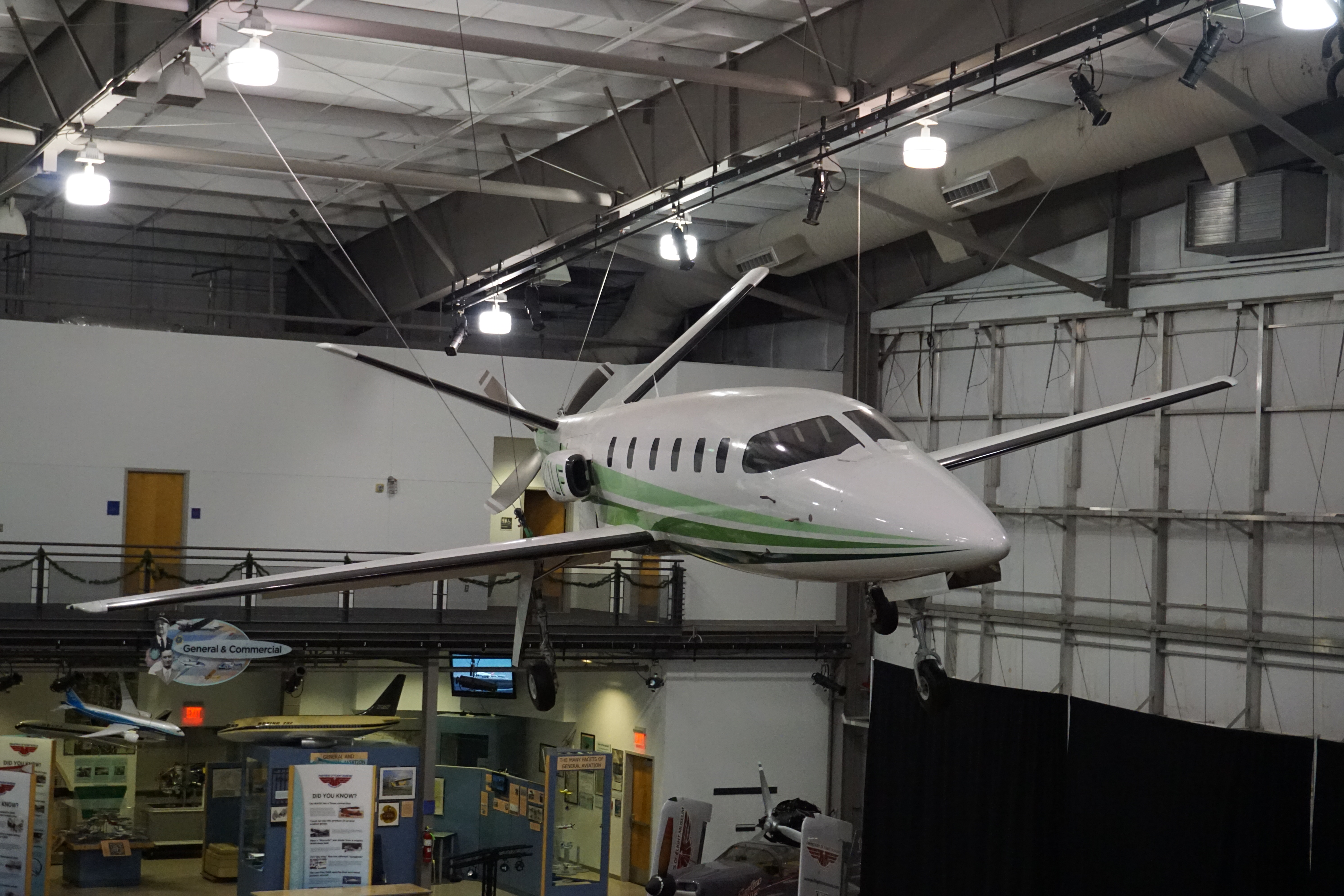 A LearAvia Lear Fan 2100 on display at the Frontiers of Flight Museum at Dallas Love Field in Dallas, Texas (United States).